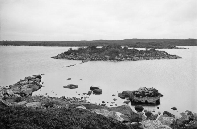 Photograph of Dùn Anlaimh, and Loch Nan Cinneachan, on the Inner Hebridean island of Coll.